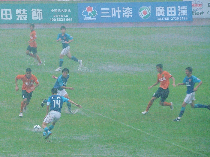 Guangdong derby on 29 May 2010